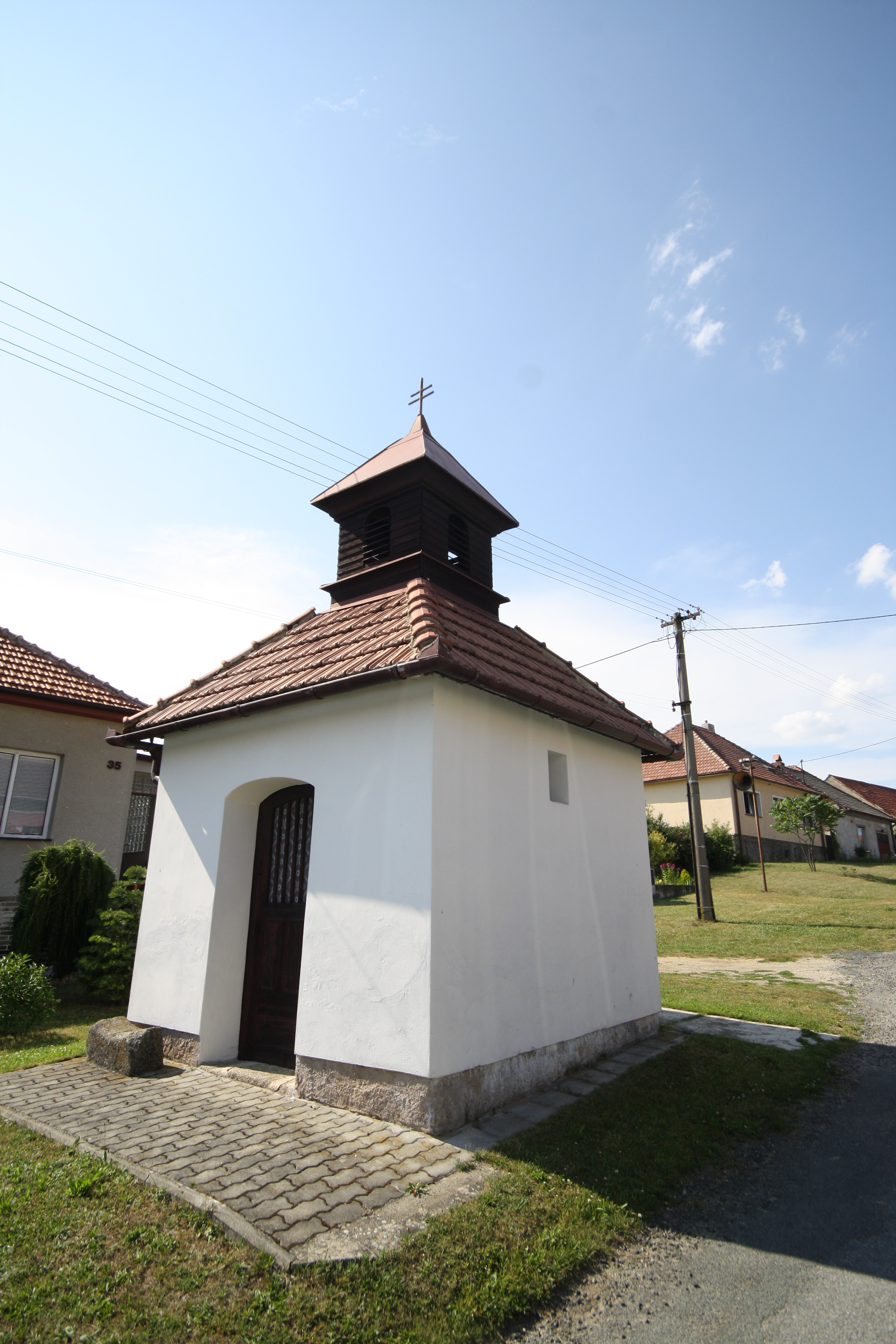 Overview of Chapel of Virgin Mary in Kojatín, Třebíč District.